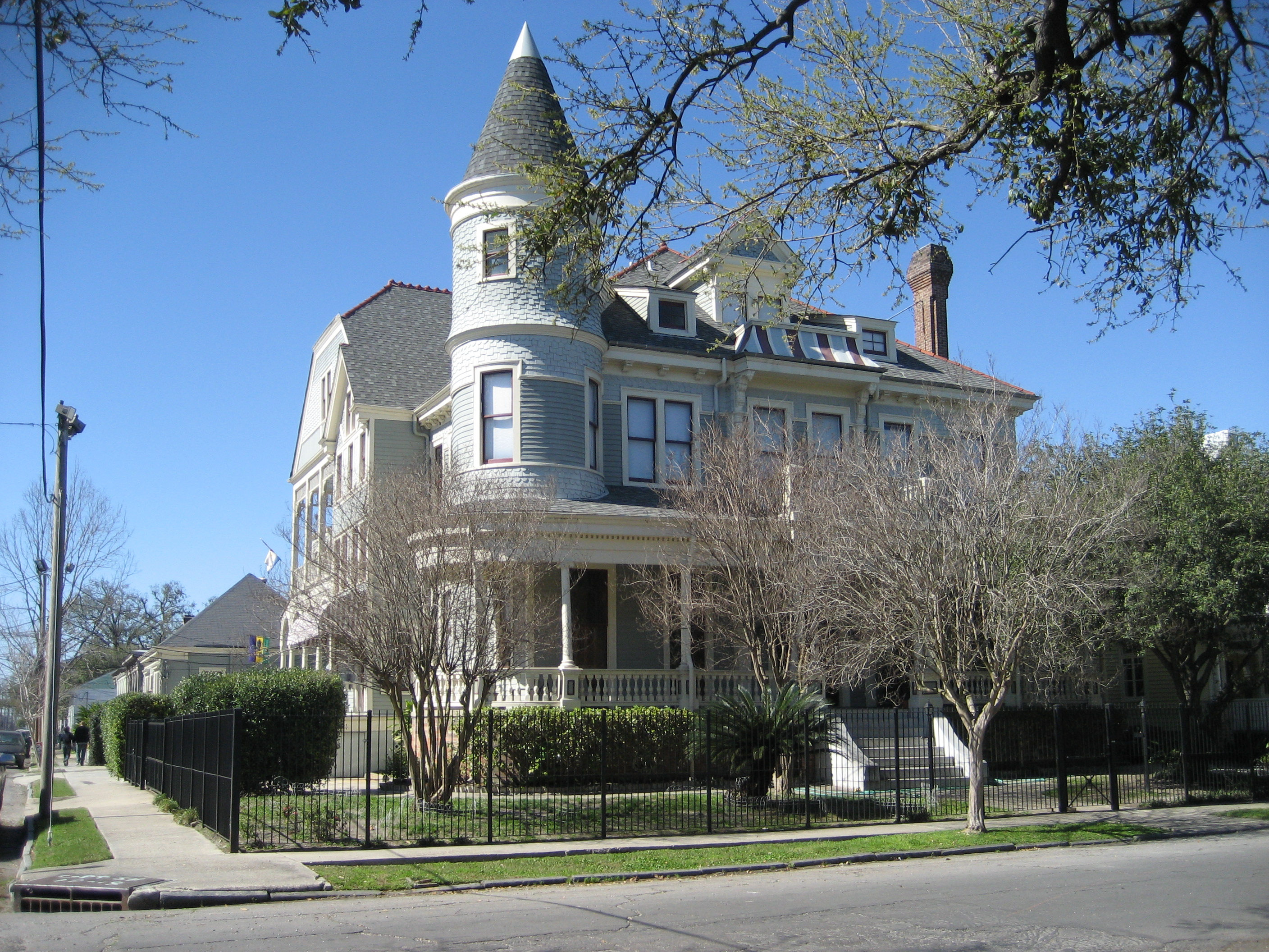 House facing Colleseum Square, New Orleans. Thalia Street intersection at left. Photo by Infrogmation